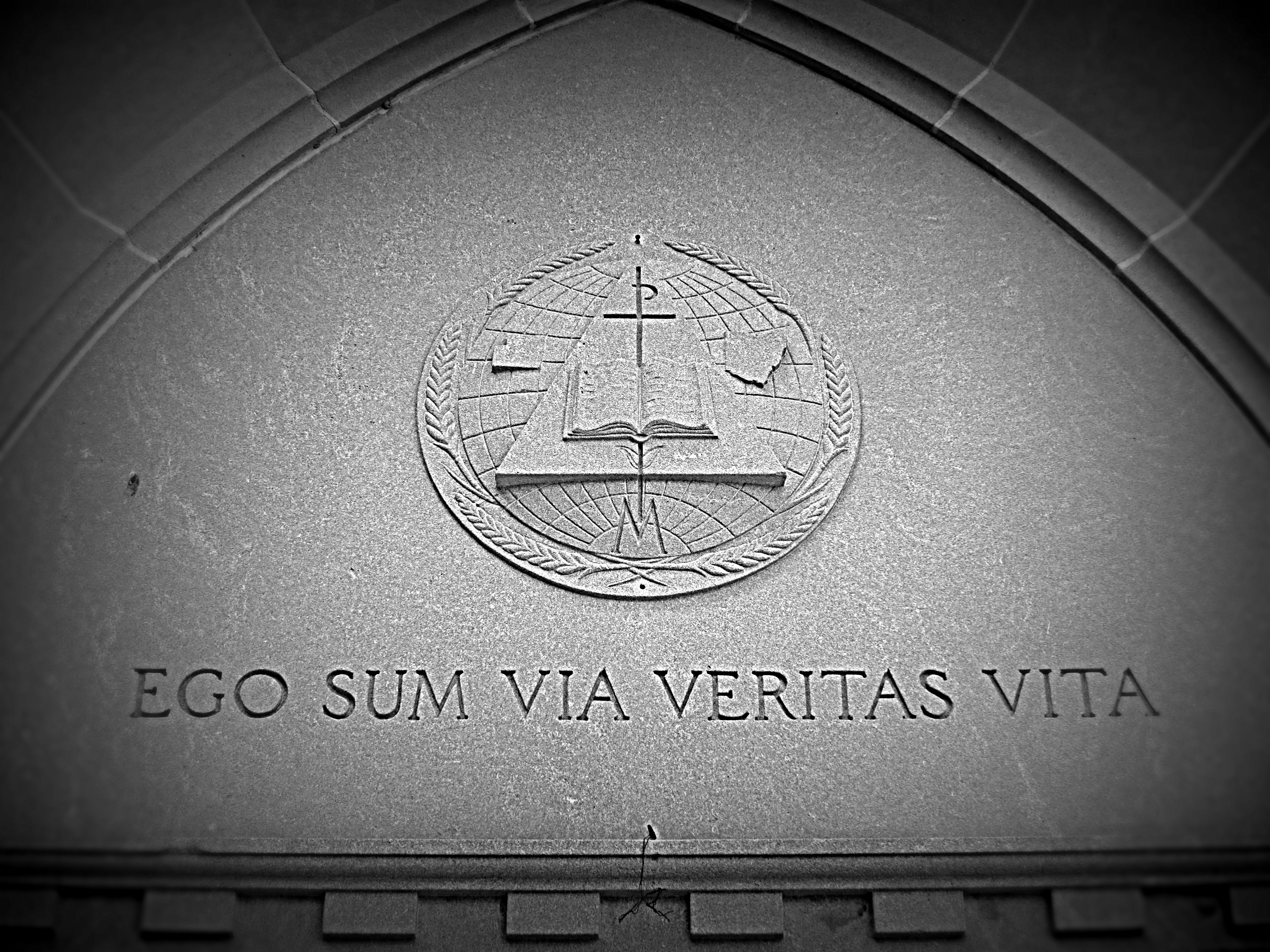 Sacred Heart of Jesus Catholic Church (McCartyville, Ohio) - exterior tympanum, John 14:6, I AM the way, the truth, and the life